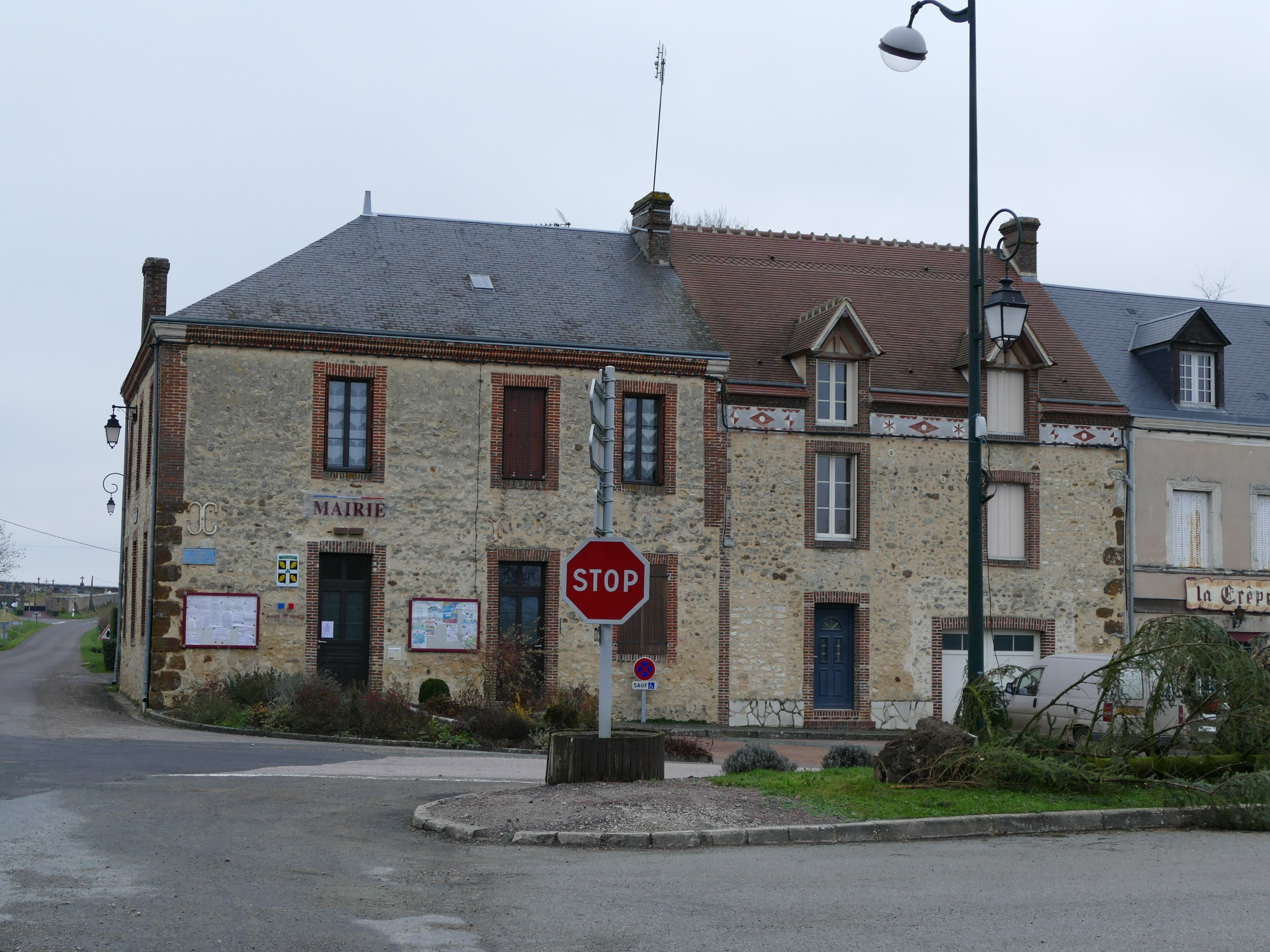 The city hall in Feings (Orne, Normandie, France).